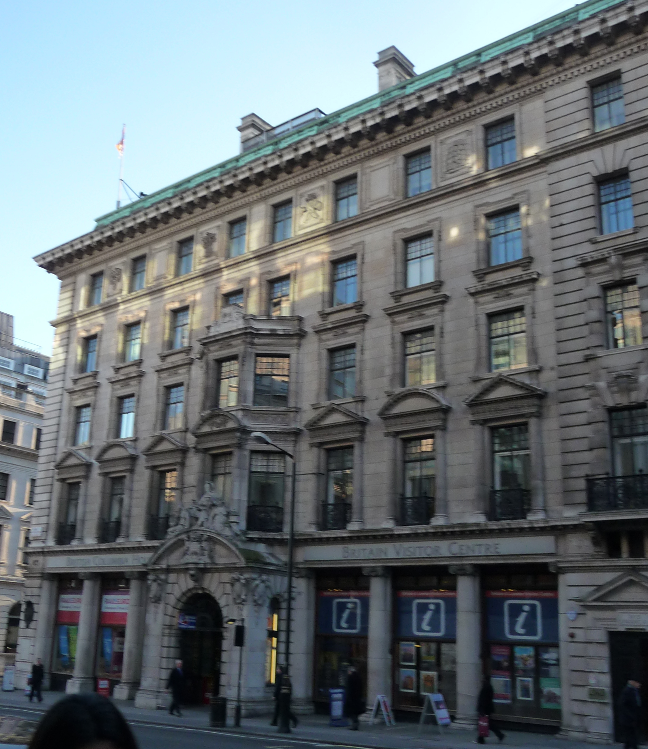 Cropped version of British Columbia House, 1 Regent Street, Westminster, London. (Woman on phone in foreground removed)